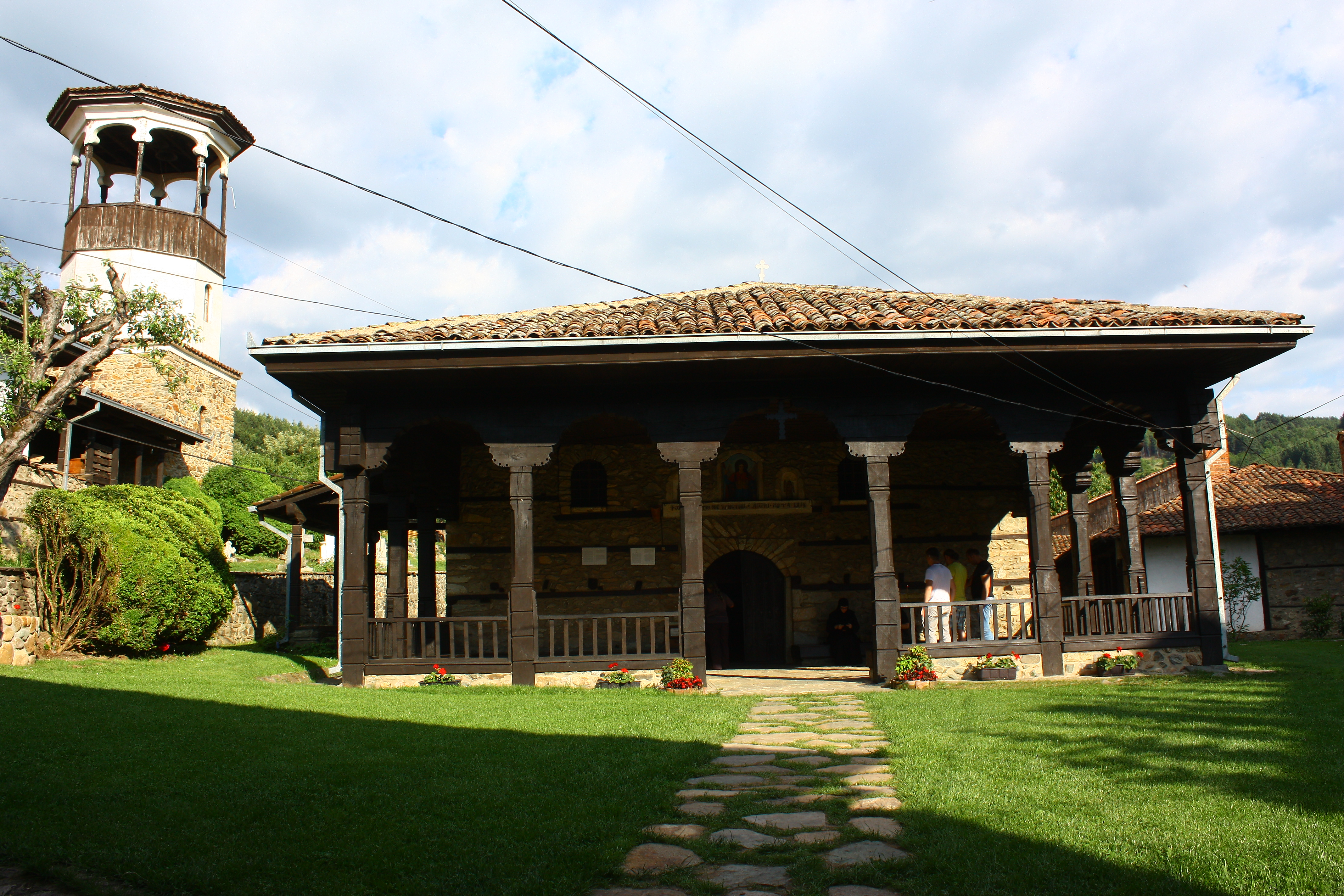 St. Michael the Archangel Church in Berovo, Macedonia